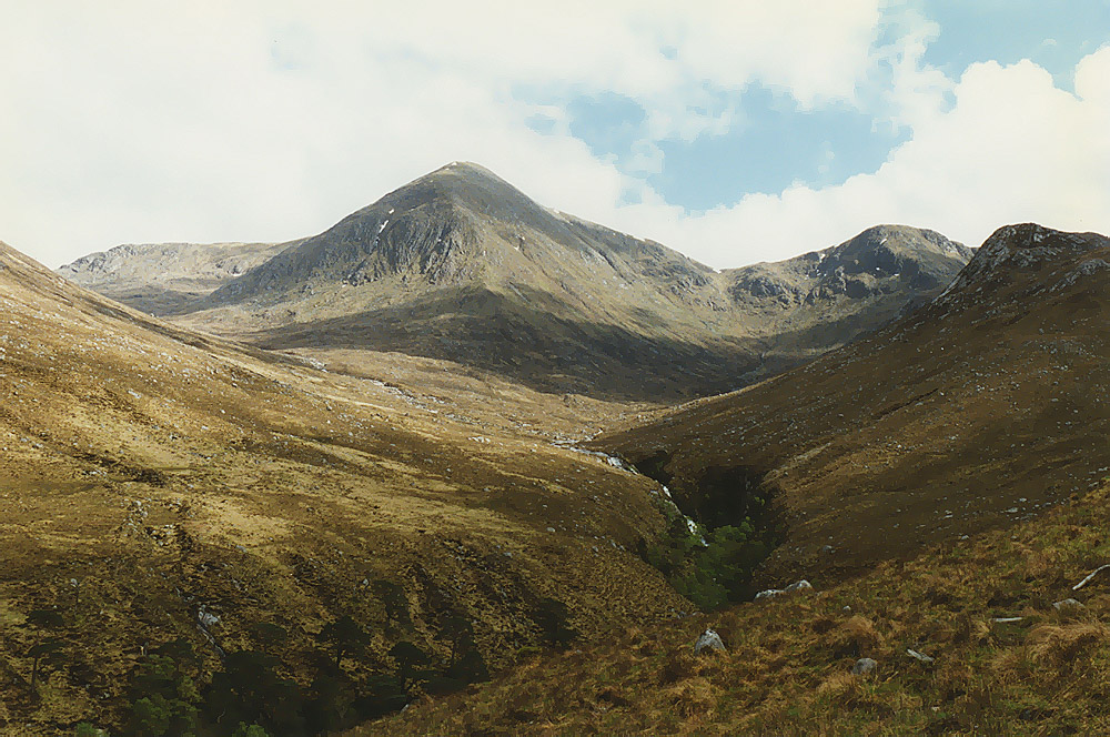 View towards Glas Bheinn Mhor In the foreground the Allt Mheuran lies hidden in a deep gully; it can be seen higher up at the waterfall, the Eas nam Meirleach. The stream rises in the coires on either side of Glas Bheinn Mhor, seen central.